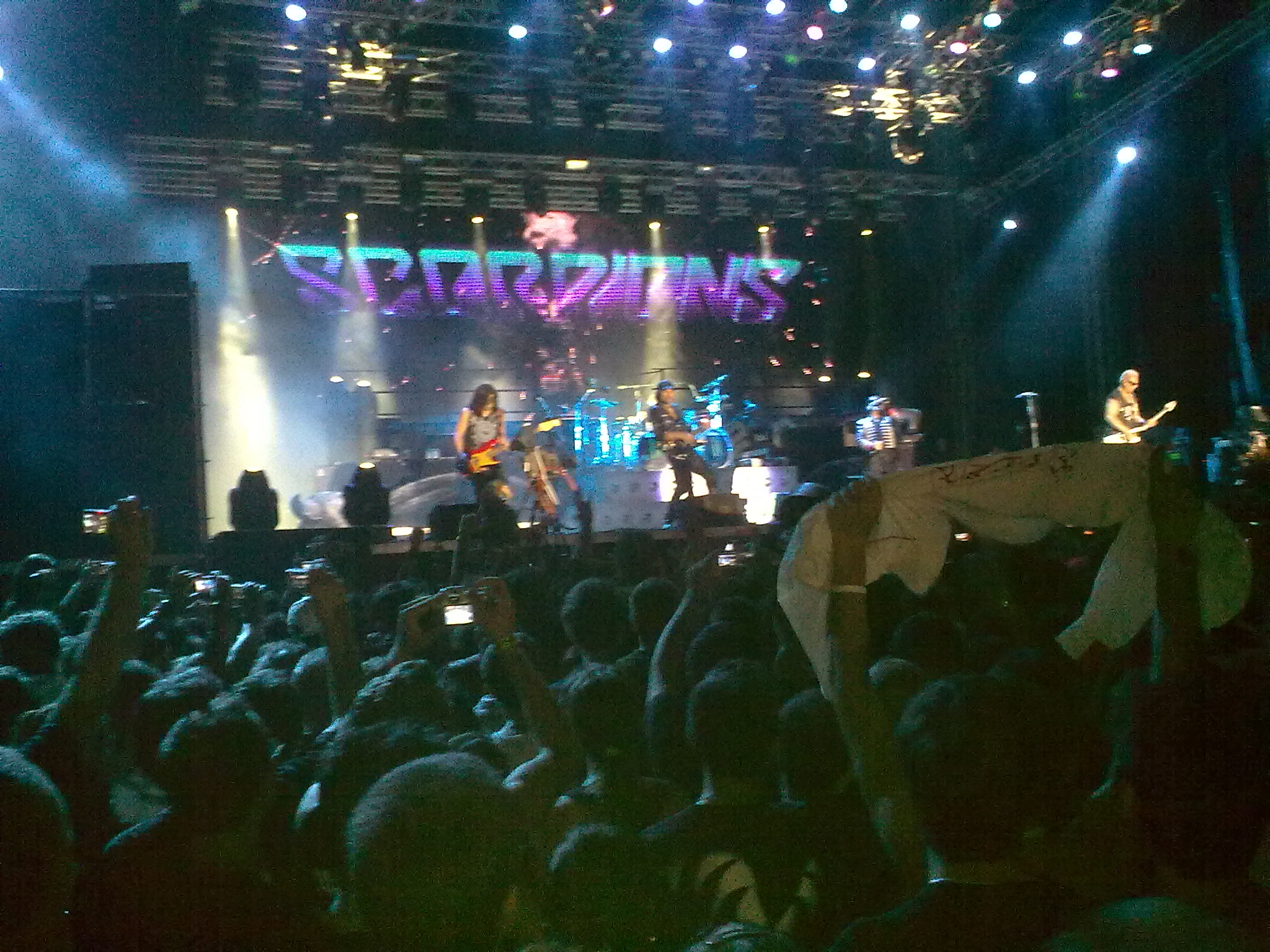 Scorpions in Kavarna 2009